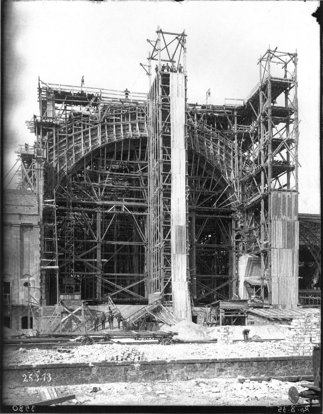 Leipzig Main Station , construction of the cross platform, 1913